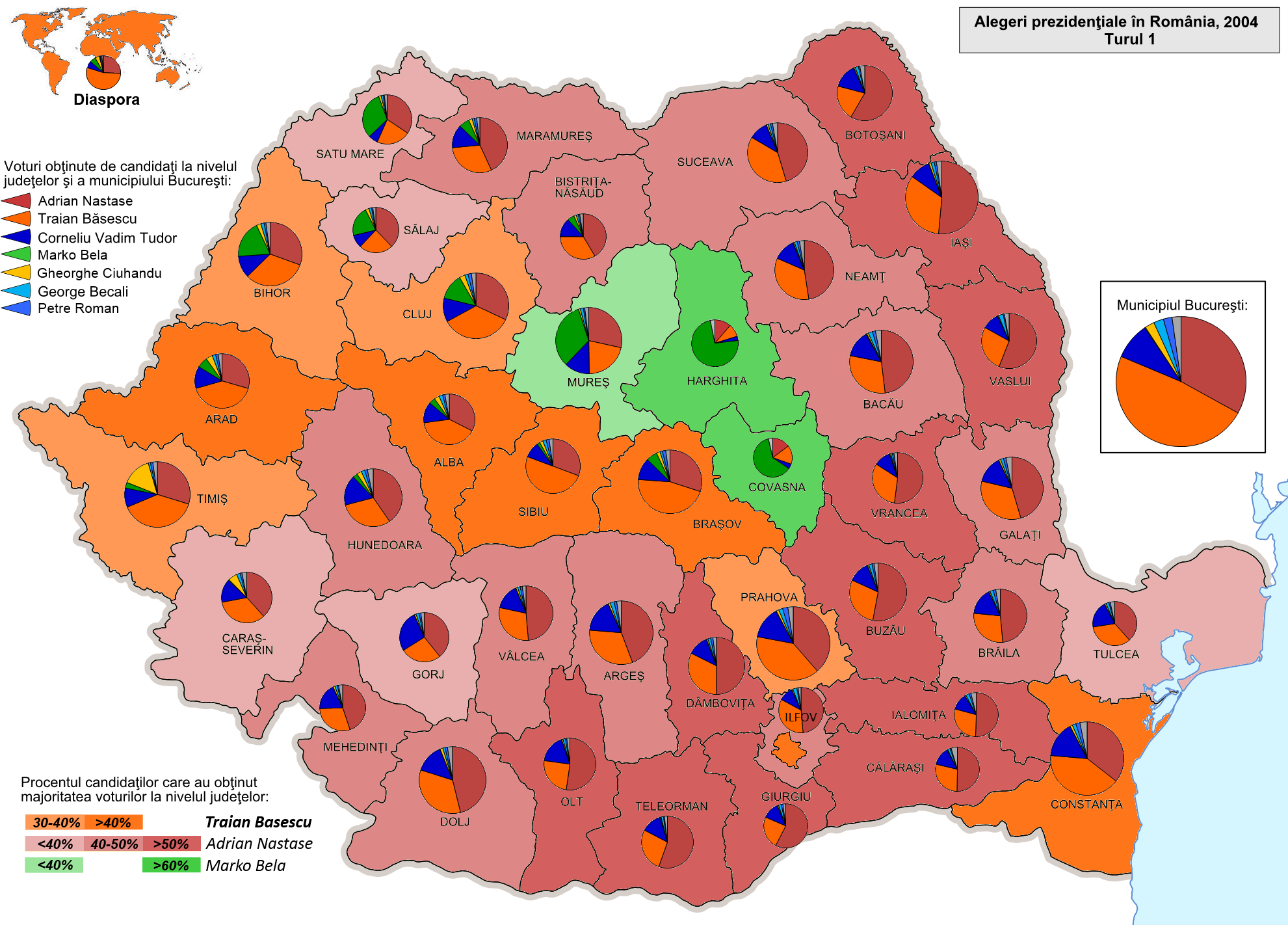 Results by counties